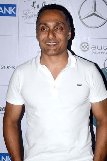 Rahul Bose graces the Four Seasons new lounge launch.